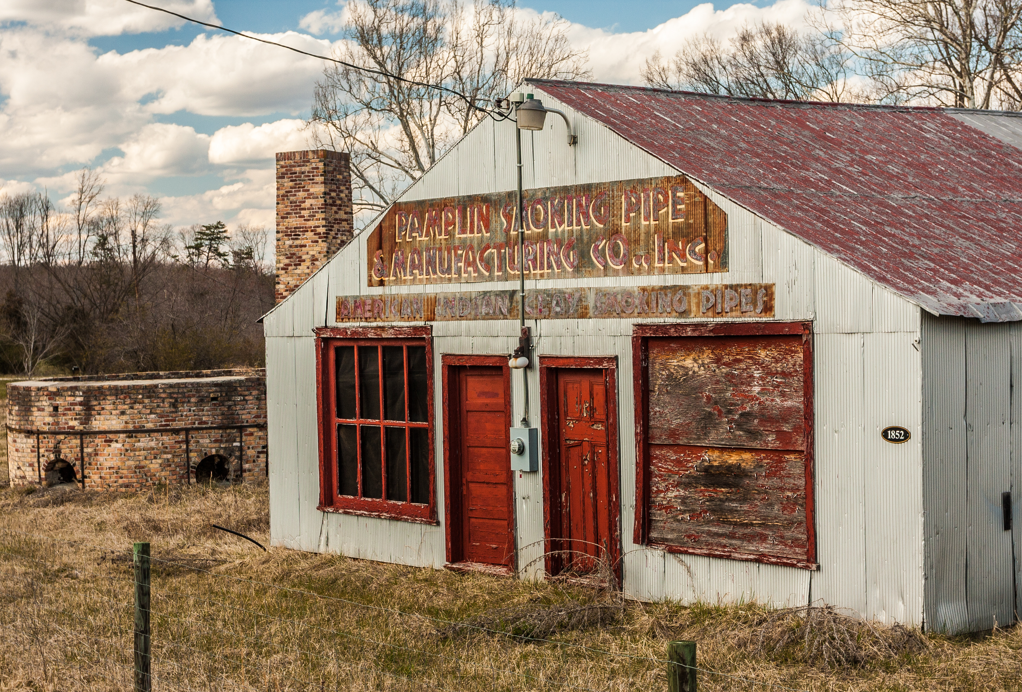 Clay Pipe Factory in Pamplin, Virginia - now an archaelogical site